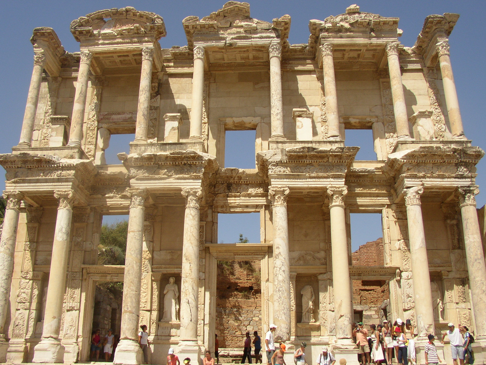 Celsus library, Ephesus, Turkey